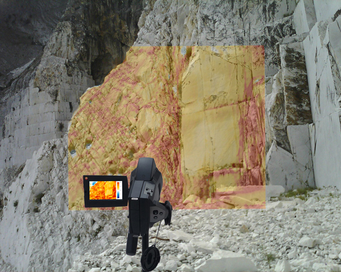 Termogramma a infrarosso di un versante in roccia